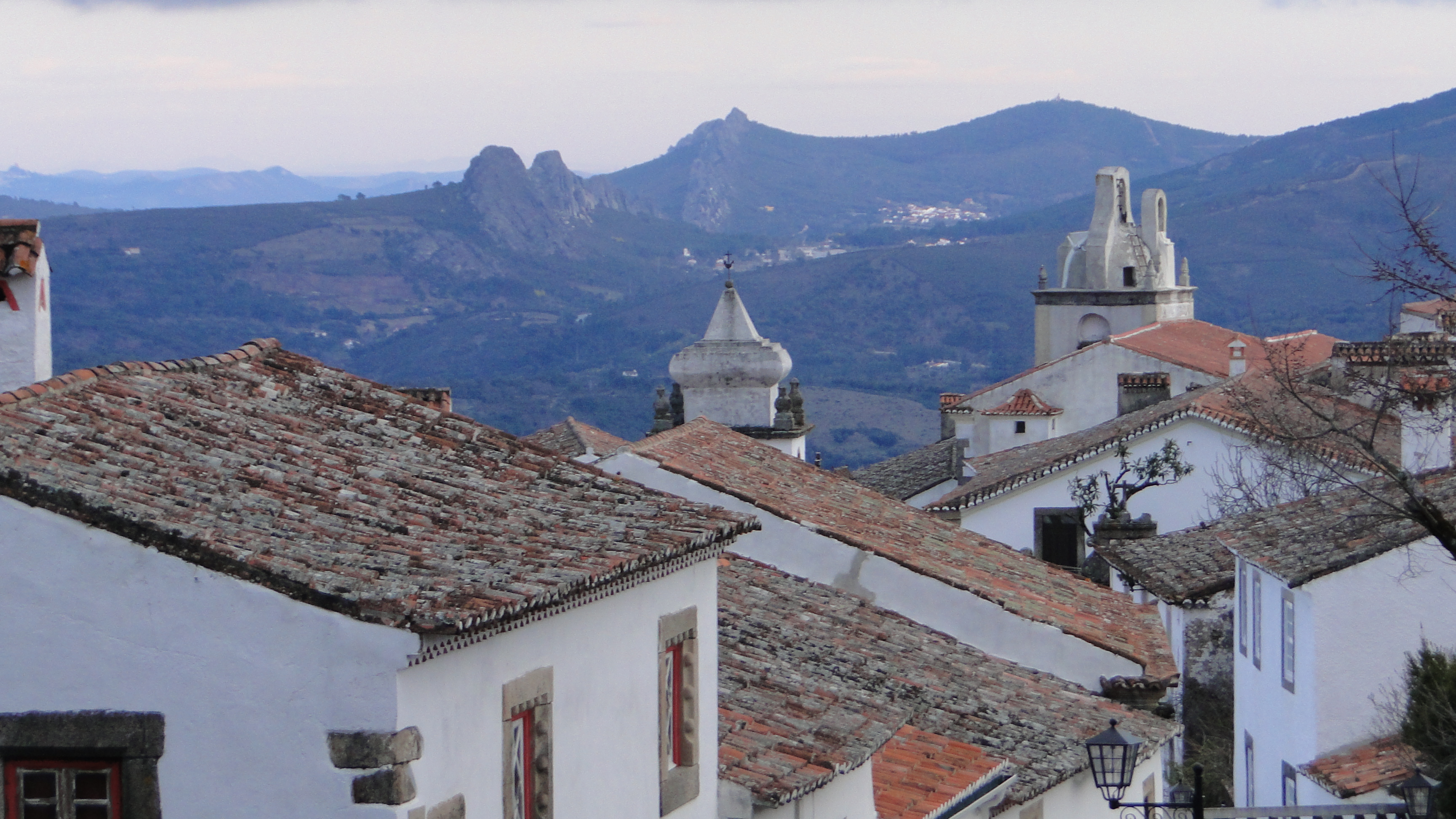 Marvão (Portugal)